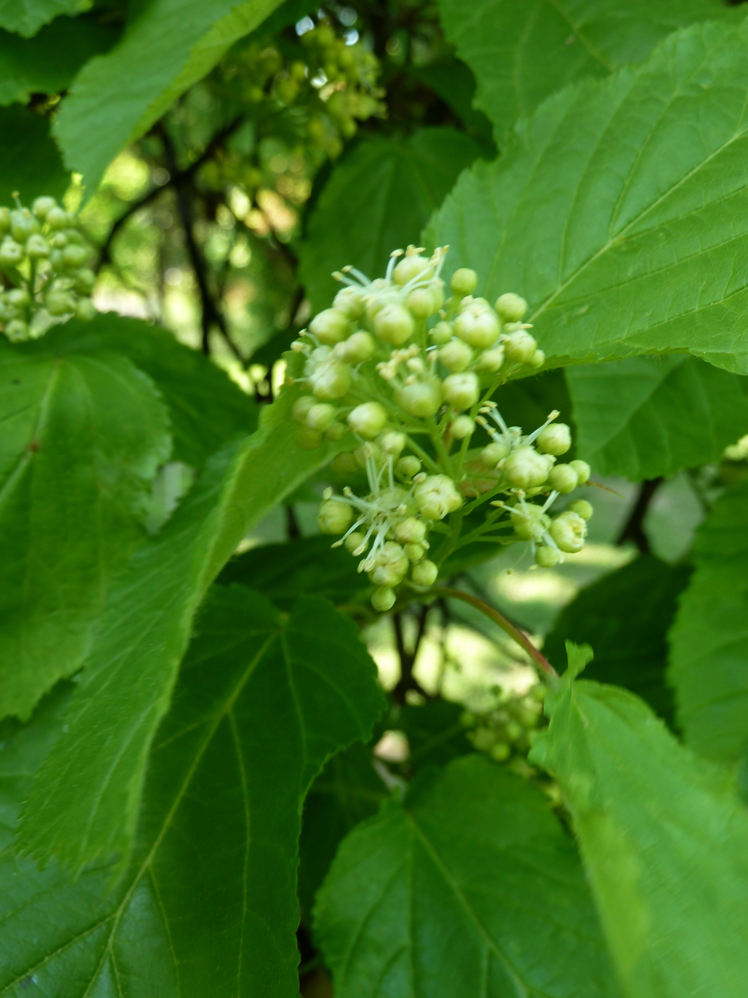 Acer tataricum subsp. ginnala in Arboretum de l'école du Breuil (Paris, France)